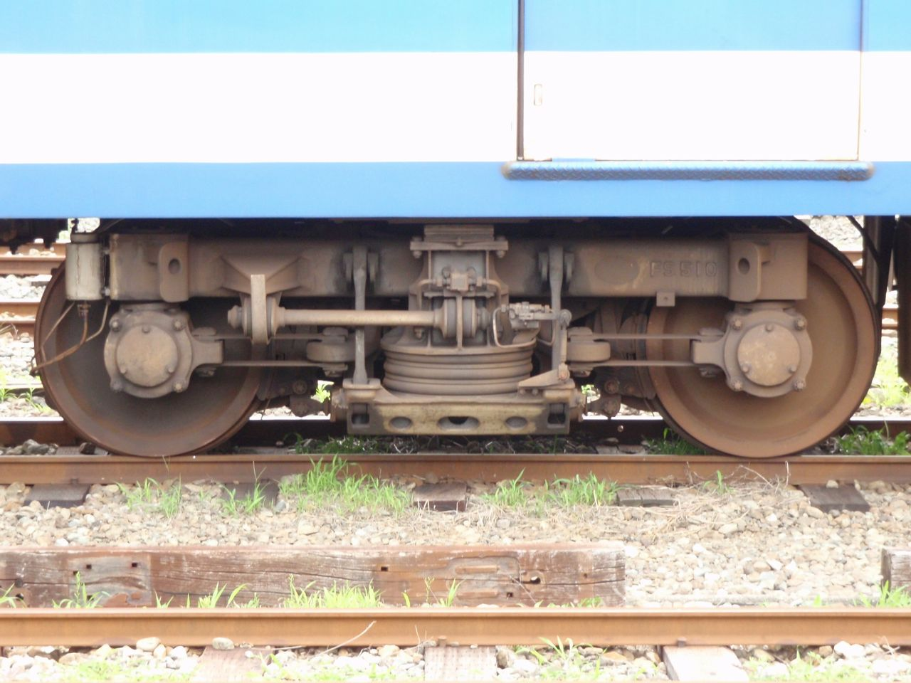 Bogie truck of Fujikyu,EMU type 1200